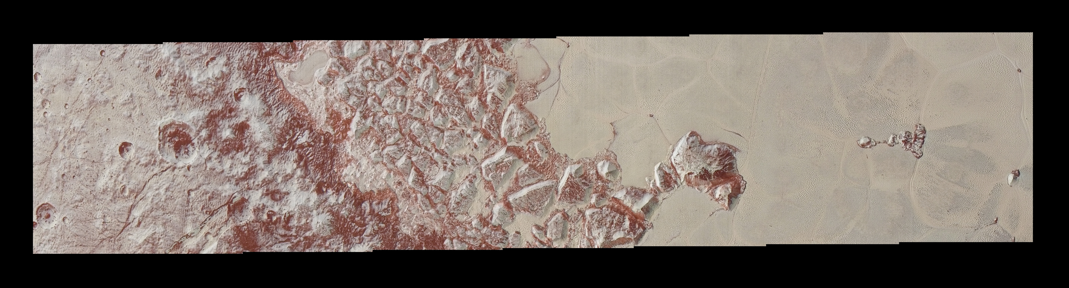 High-resolution images of Pluto taken by NASA's New Horizons spacecraft just before closest approach on July 14, 2015, reveal features as small as 270 yards (250 meters) across, from craters to faulted mountain blocks, to the textured surface of the vast basin informally called Sputnik Planum. Enhanced color has been added from the global color image. This image is about 330 miles (530 kilometers) across. The Johns Hopkins University Applied Physics Laboratory in Laurel, Maryland, designed, built, and operates the New Horizons spacecraft, and manages the mission for NASA's Science Mission Directorate. The Southwest Research Institute, based in San Antonio, leads the science team, payload operations and encounter science planning. New Horizons is part of the New Frontiers Program managed by NASA's Marshall Space Flight Center in Huntsville, Alabama. UPLOADER NOTES: The original NASA image has been modified by the uploader by converting from TIFF to JPEG format.